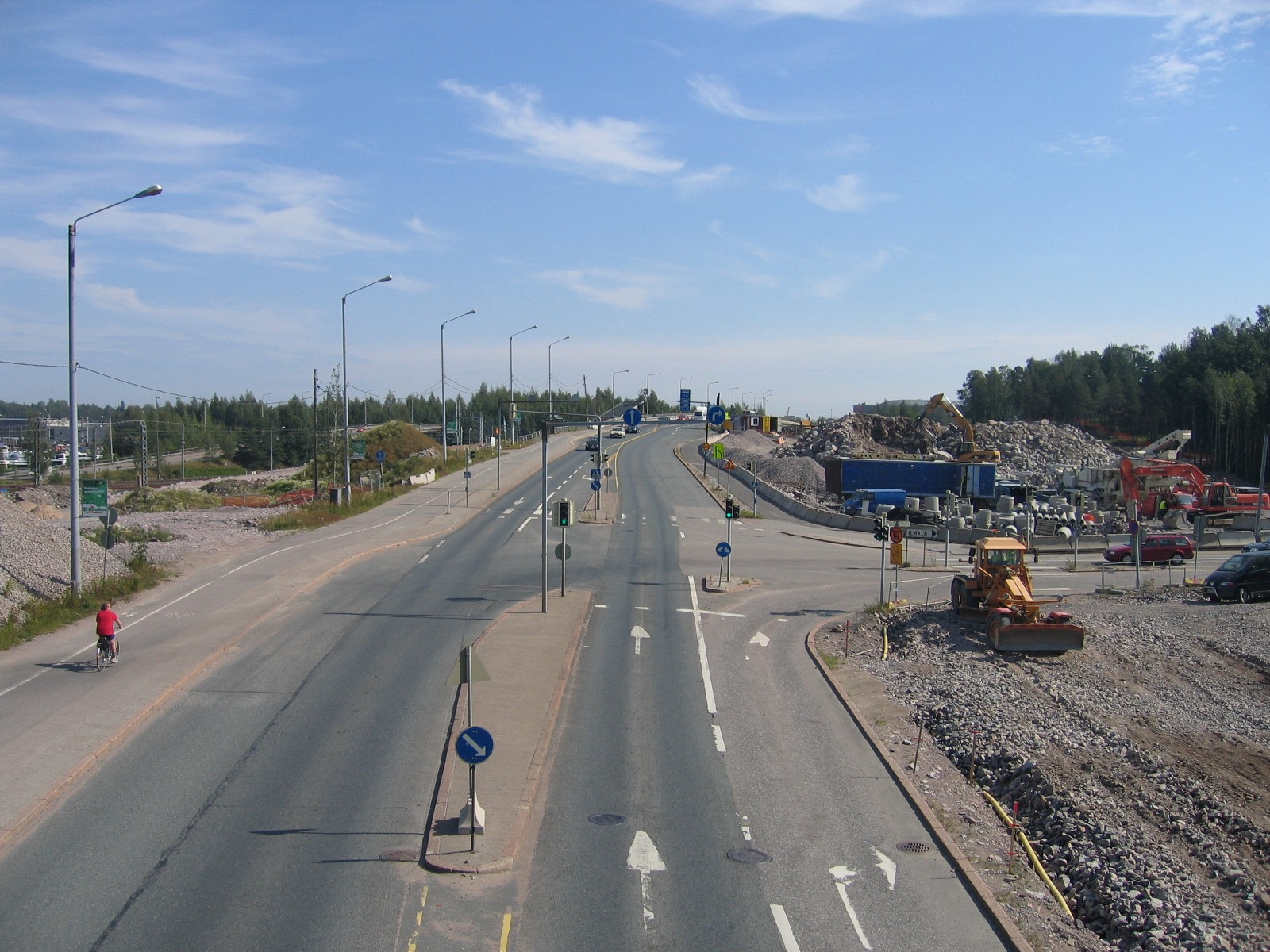 Regional road 100 (Hakamäentie) road at Ilmala junction in Helsinki, Finland. Under construction 2006–2009.